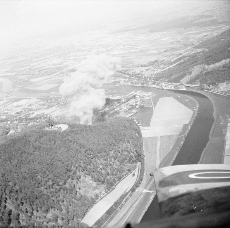 Germany Under Allied Occupation Aerial view of the hill near Minden into which an underground munitions factory was built. This photograph was taken just after the explosion to demolish the site. On top of the hill can be seen a memorial to Kaiser Wilhelm I.